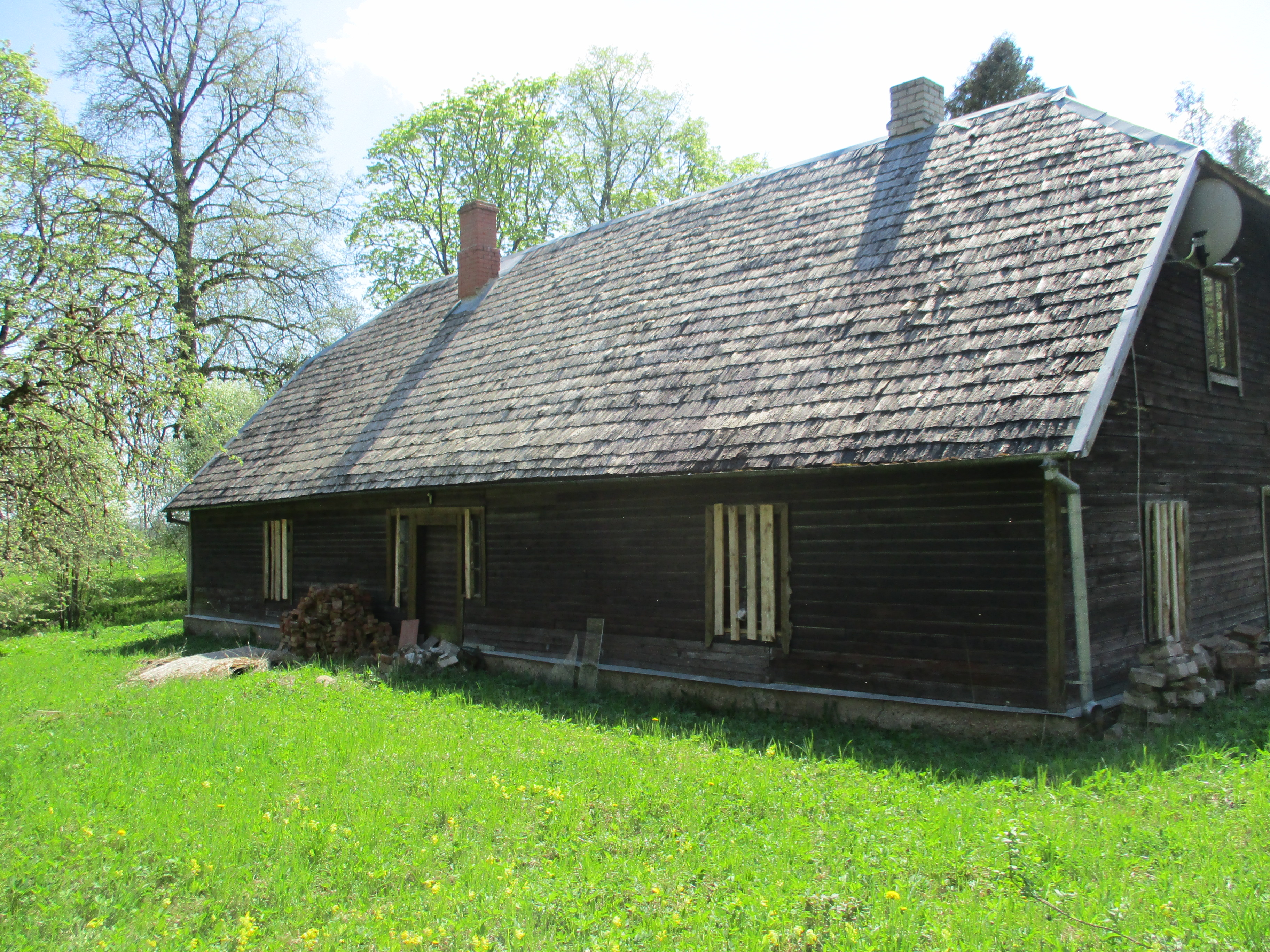 Native house of a lithuanian sculptor J. Mikenas.